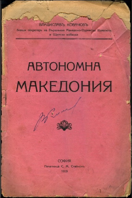 Avtonomna Makedonia